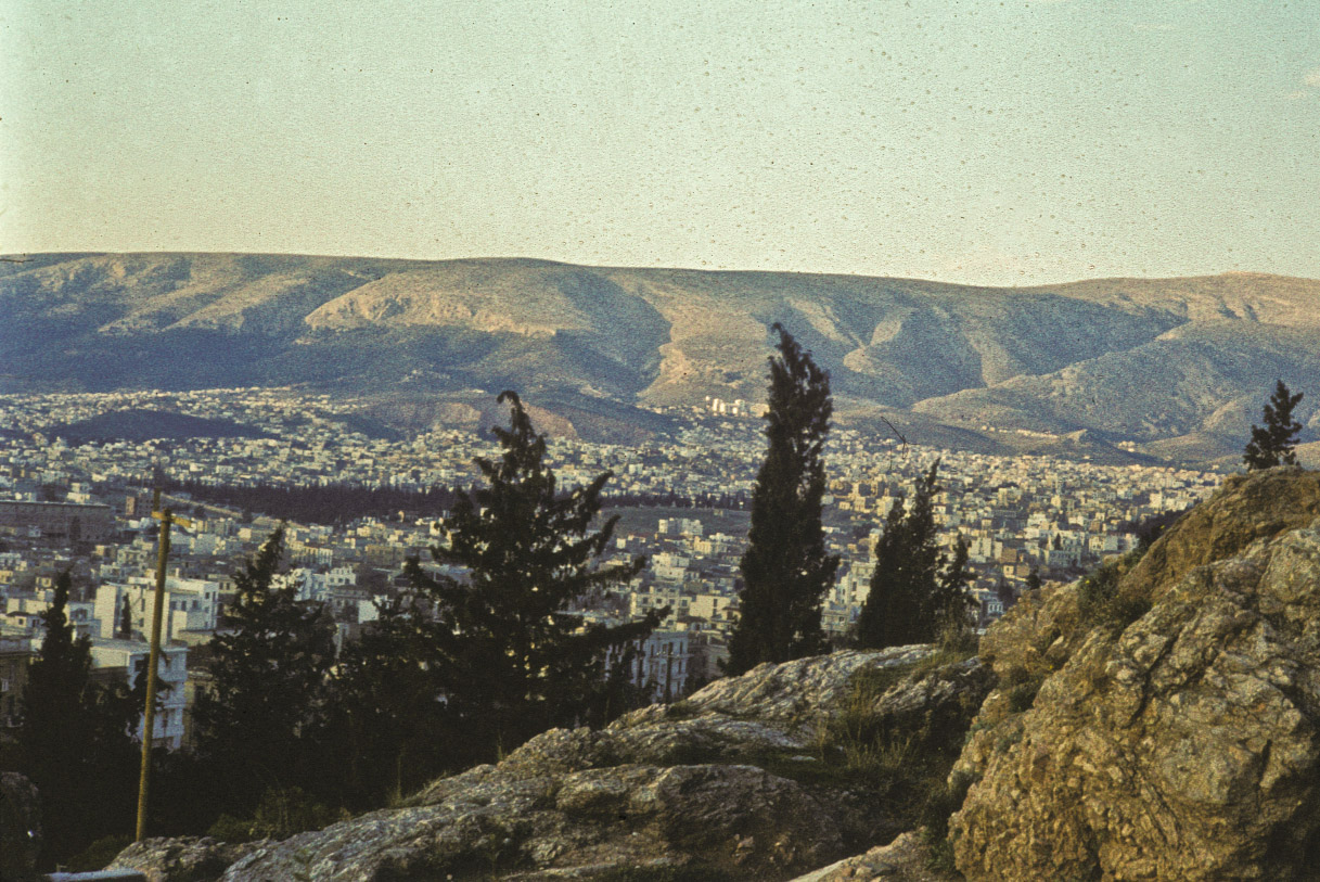 Athens